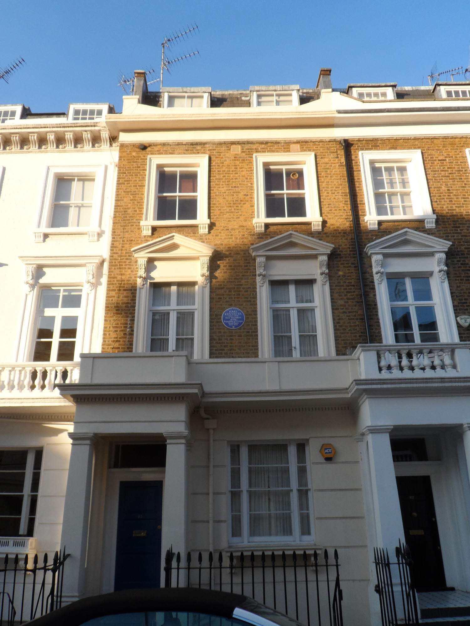 JOMO KENYATTA c1894-1978 First President of the Republic of Kenya lived here 1933-1937